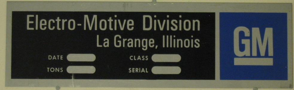 Blank GM-EMD builder's plate in the collection of Sean Lamb. Photo by Sean Lamb (User:Slambo), October 25, en:2004.